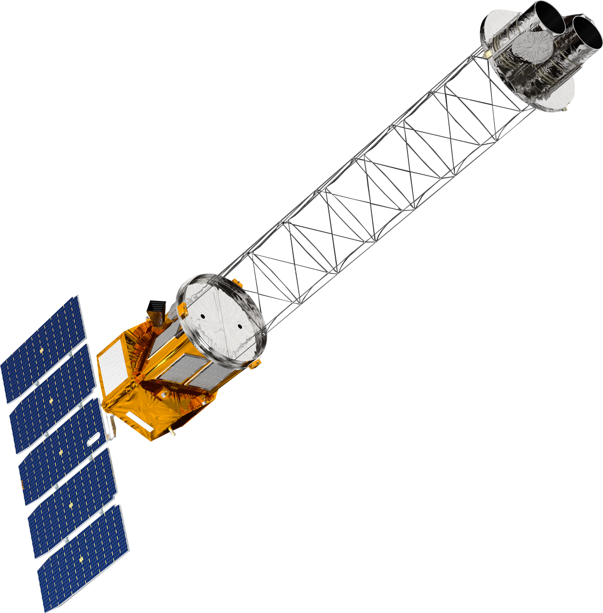 Artist's concept of the Gravity and Extreme Magnetism spacecraft.